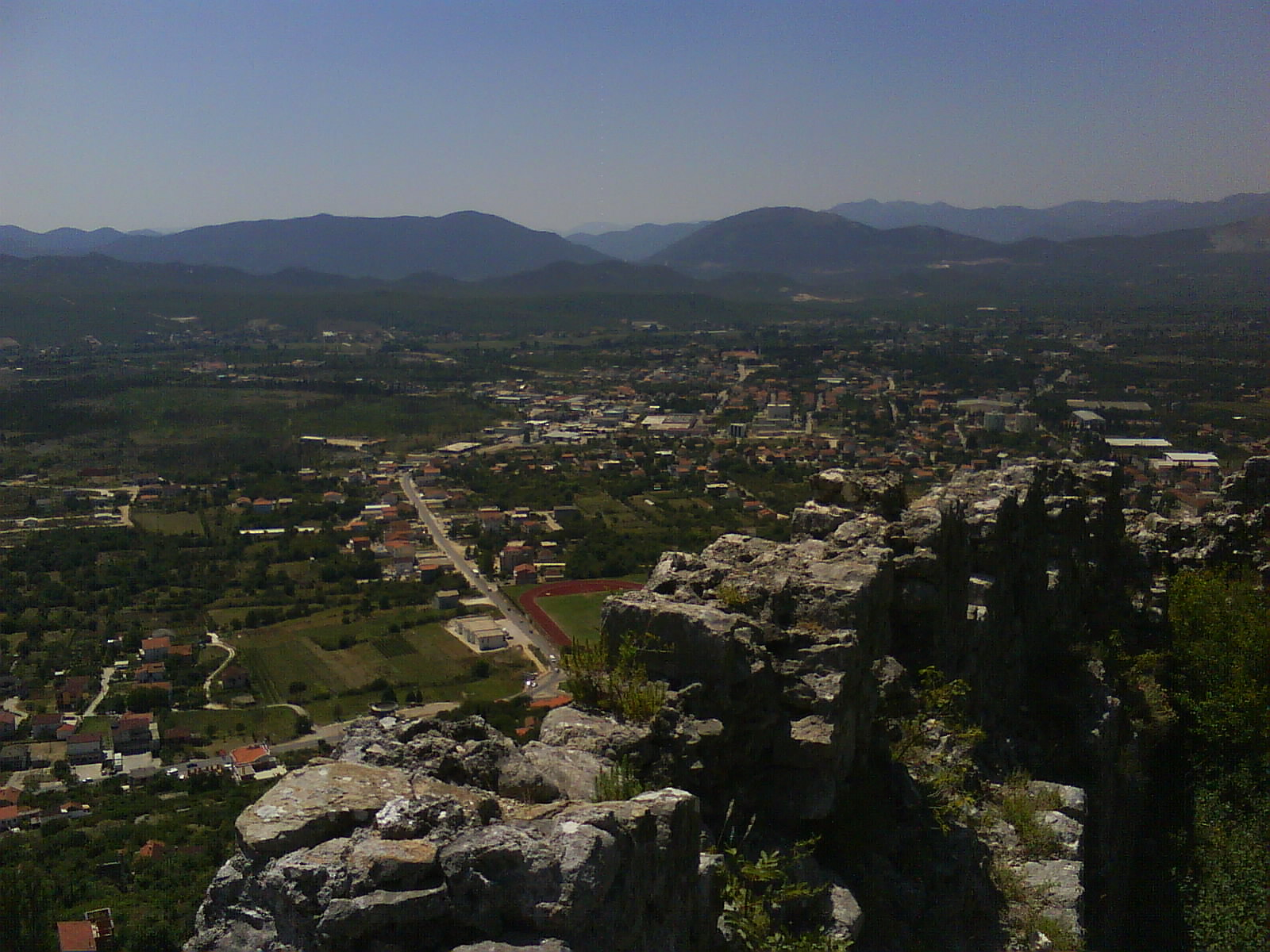 Fort of herceg-Stipan Kosača above Ljubuški